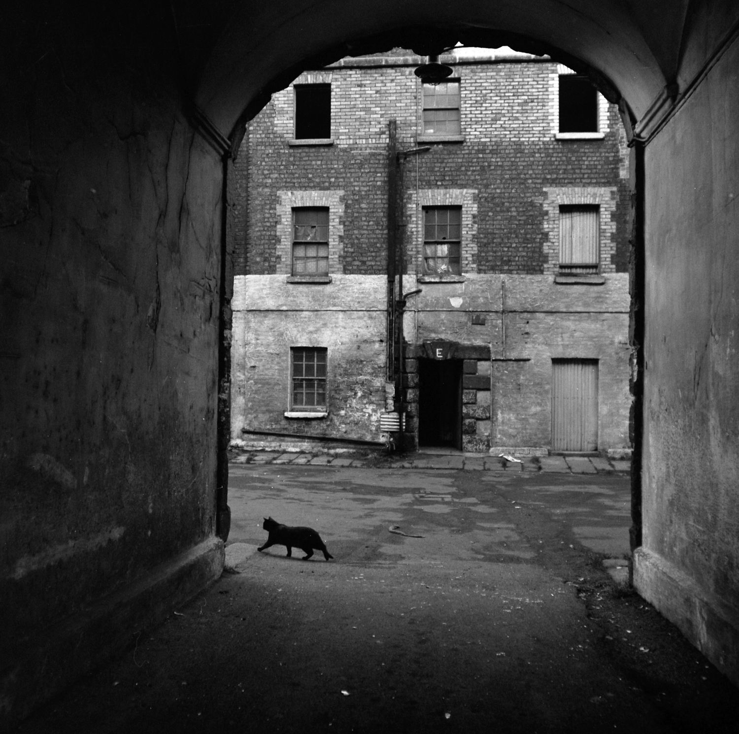 Very atmospheric photo altogether taken by Elinor Wiltshire at Dublin's Marshalsea Barracks. Because of Little Dorrit, Marshalsea conjures up the idea of a debtors' prison for me. Is that what it originally was, does anyone know, even if it was an ex-Barracks by the time this was taken in 1969? RESP: Marshalsea barracks was located near Bridgefoot Street and Bonham Street. It was used as a debtors prison and laid out around two courtyards that housed accommodation, guard rooms, a chapel and an infirmary. Robert Emmet used Marshalsea as an arsenal while the Dublin Militia used it as a barracks in the late 19th century. In the 20th century it was used as tenement housing, before being demolished in the 1970s. Date: 1969 NLI Ref.: WIL 59[7]